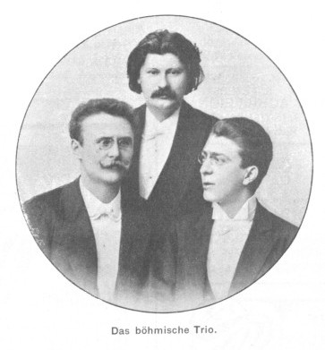 Members of "Czech Trio" (Czech: České trio